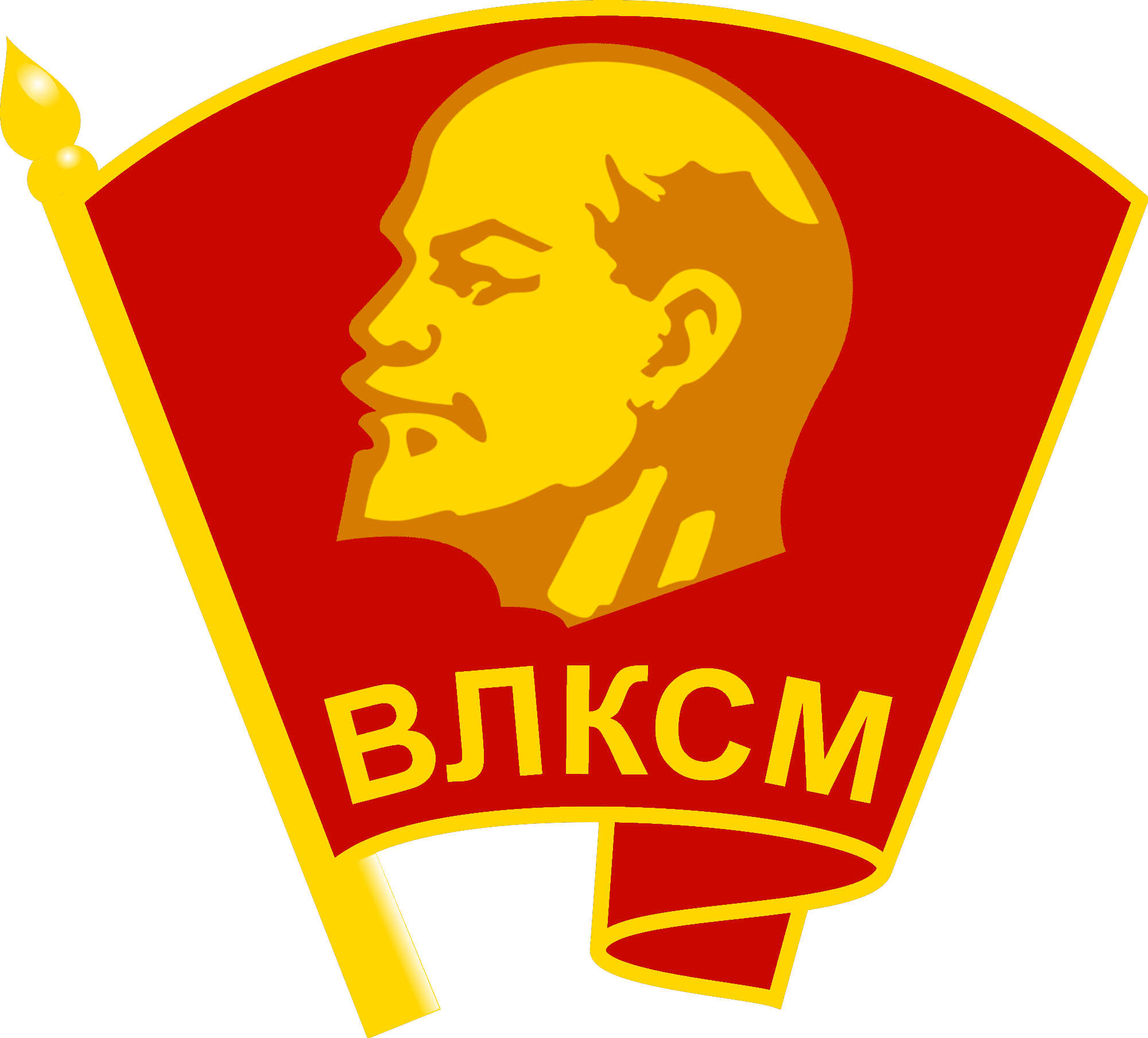 Komsomol Emblem with Crimson Red and Gold